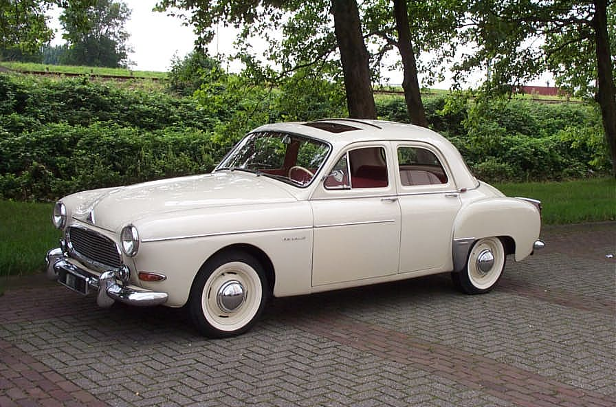 1959 Renault Frégate Transfluide saloon, ivory, interior in red fake leather The vehicle was on sale at the Garage de l'Est at the time the image was uploaded